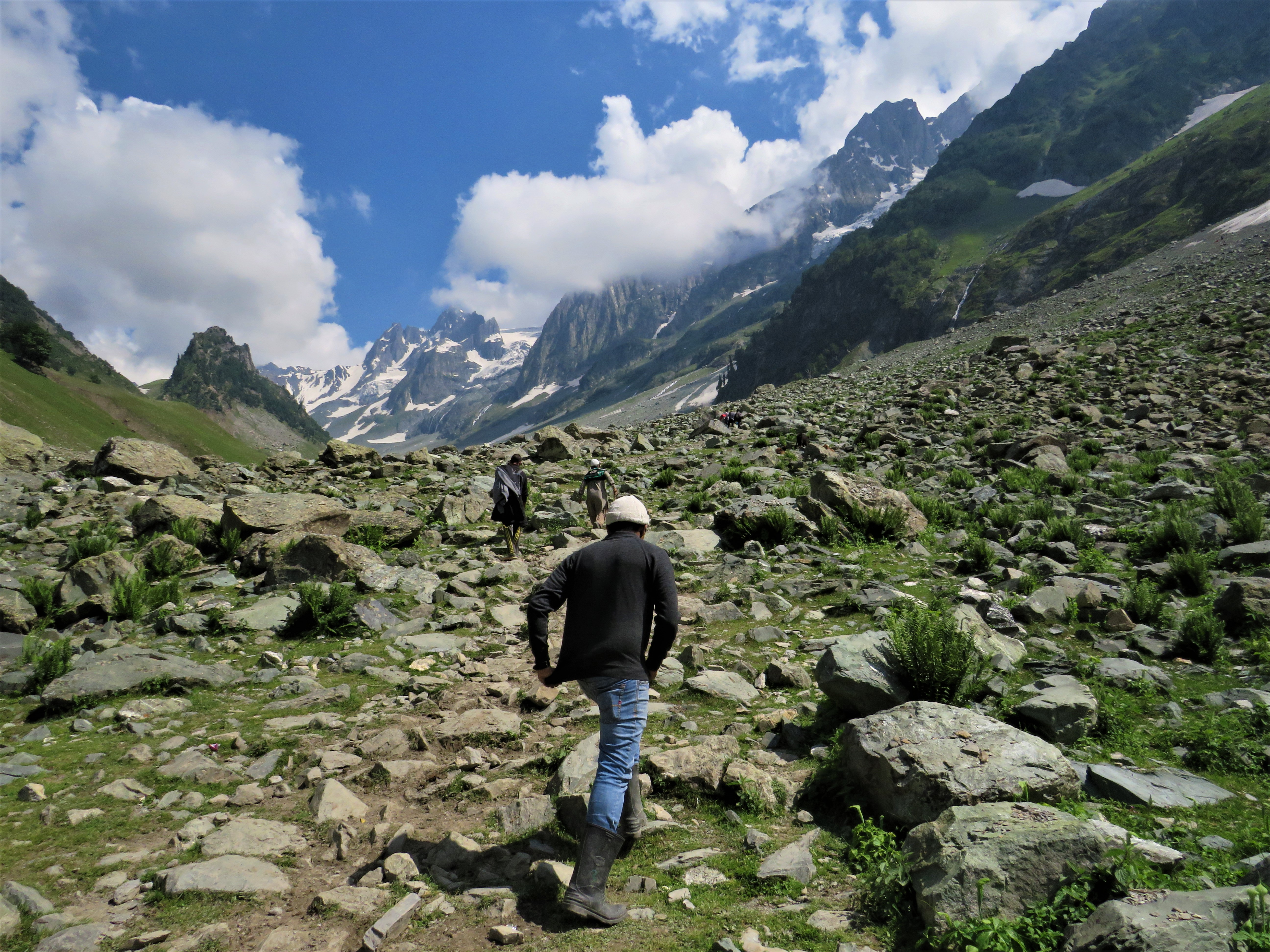 Trekking to the Glaciers of Sonmarg